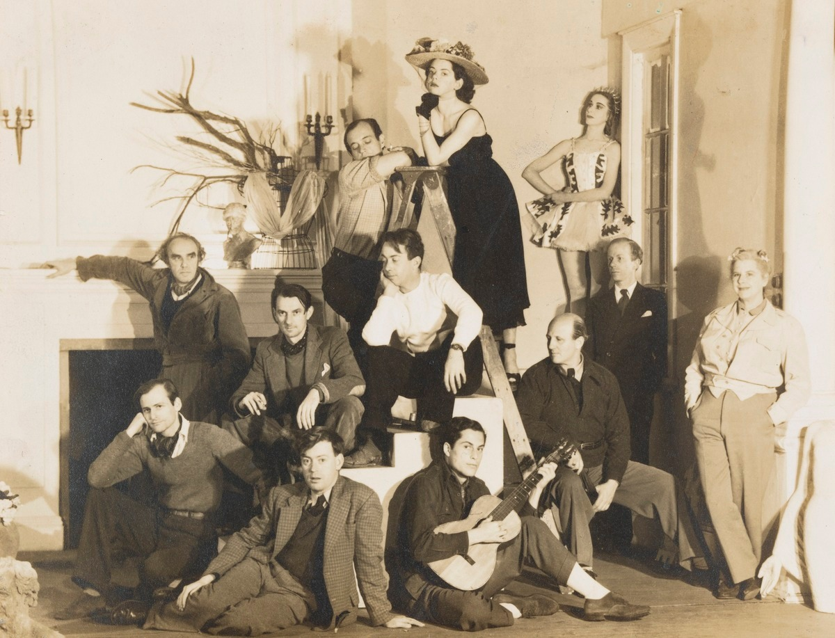 Photograph of members of the Merioola Group, also known as the Sydney Charm School, in the Merioola Mansion.